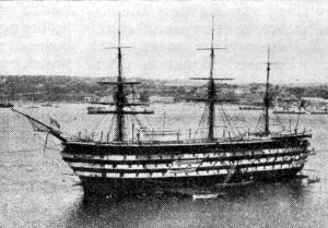 British school ship HMS Impregnable, ex-ship-of-the-line